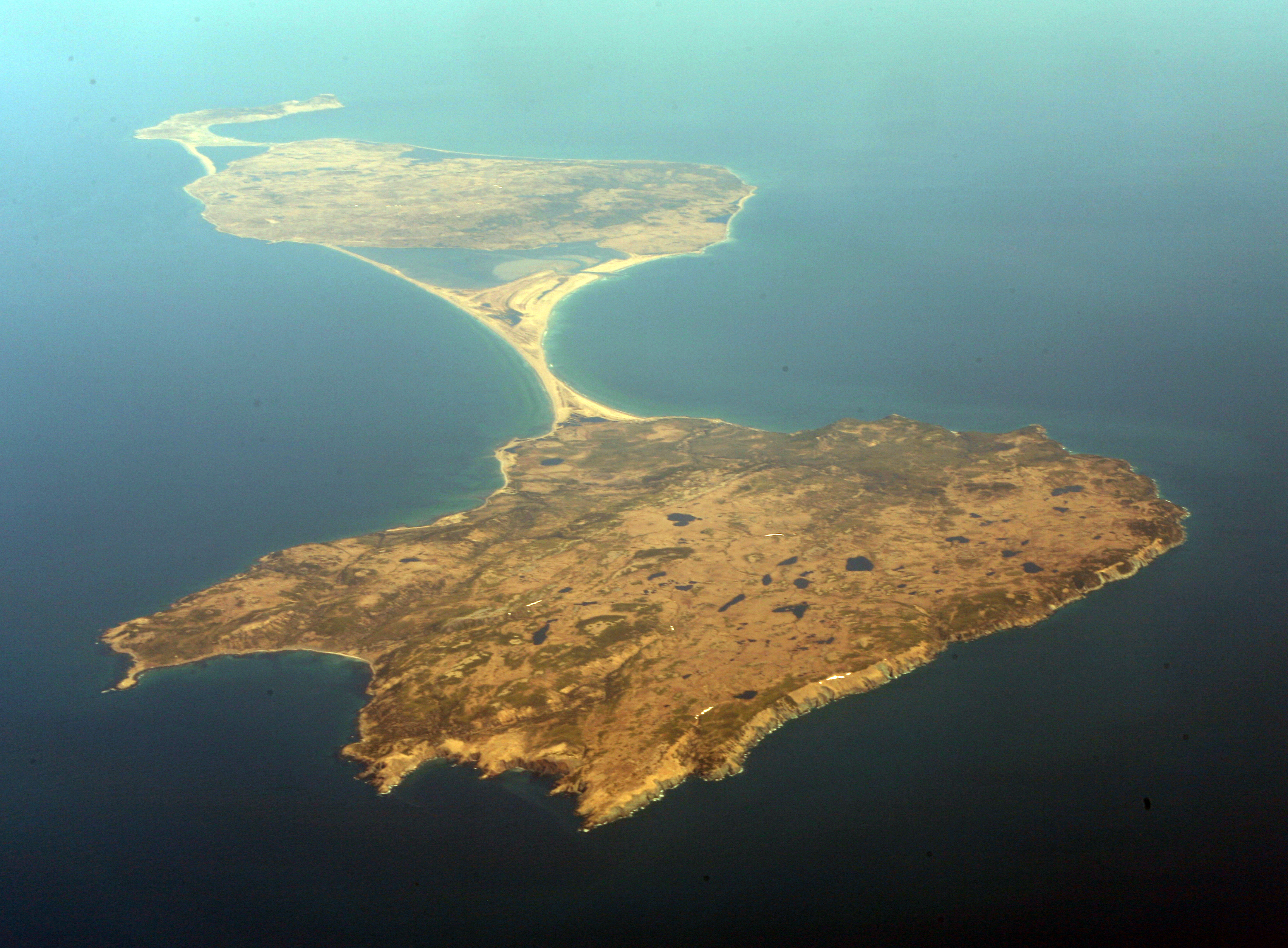 Ile de Miquelon, or Miquelon Island. Langlade, or Petit Miquelon, uninhabited since 2006, is the southern island, closer in this photo. An isthmus of dunes called trombolos connects it to Grande Miquelon. More trombolos connect that with Le Cap, or the Cape, at the northern end. The settlement of Miquelon itself is inside the eastern curve of Le Cap.